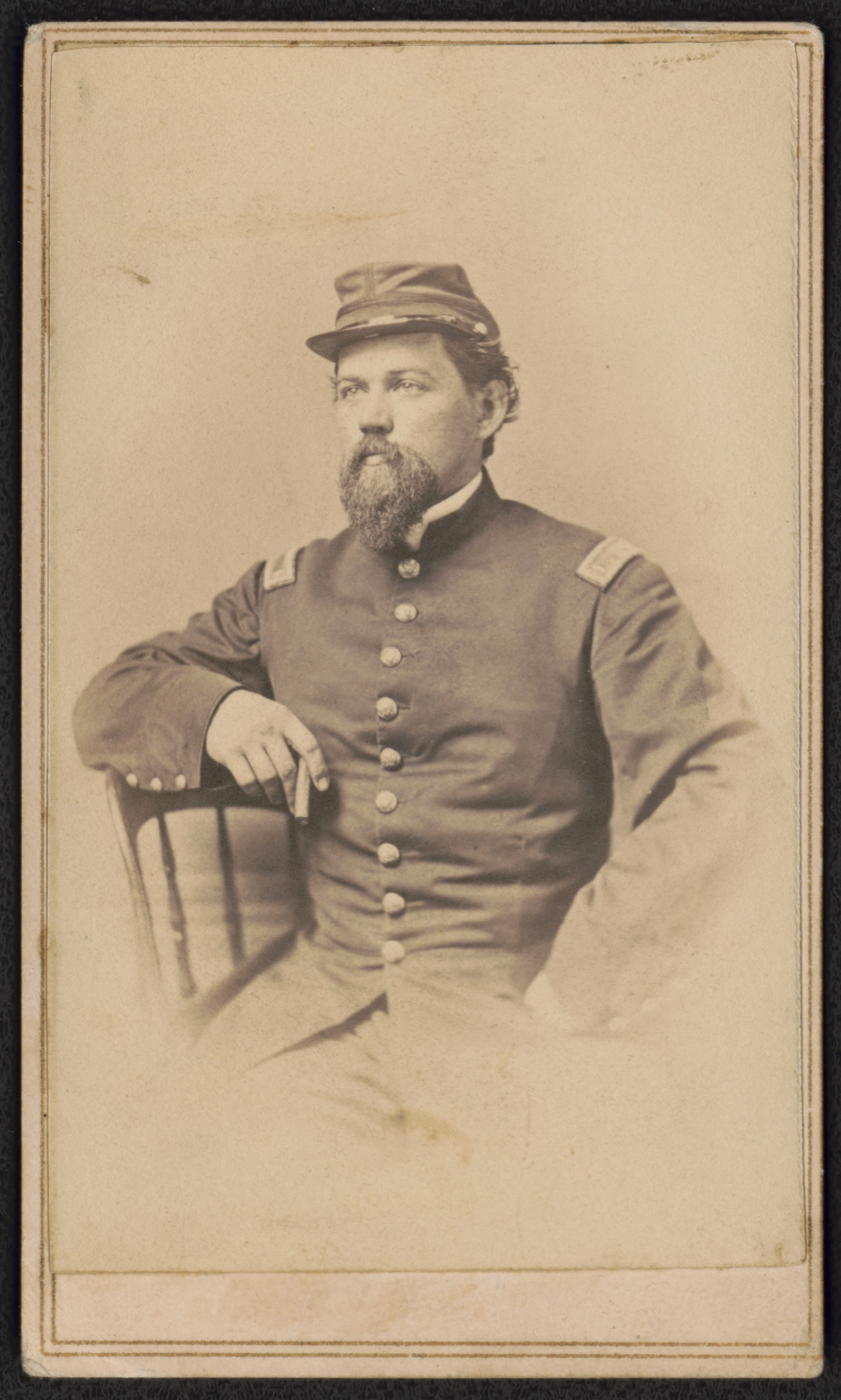 Title: Lieutenant David F. Hicks of Co. B, 13th Massachusetts Infantry Regiment and 79th U.S. Colored Troops Infantry Regiment in uniform / S. Moses & Son, No. 46 Camp Street, corner of Gravier, New Orleans, La Abstract/medium: 1 photograph : albumen print on card mount ; mount 11 x 6 cm (carte de visite format)